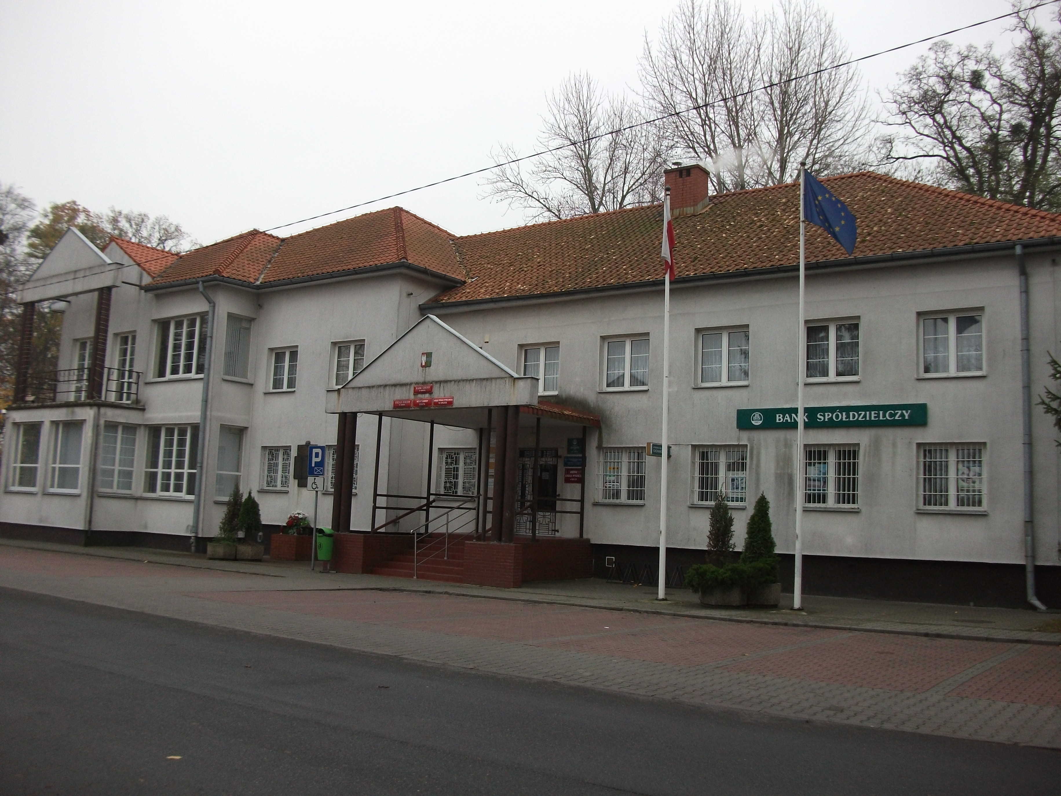 Gruta Community